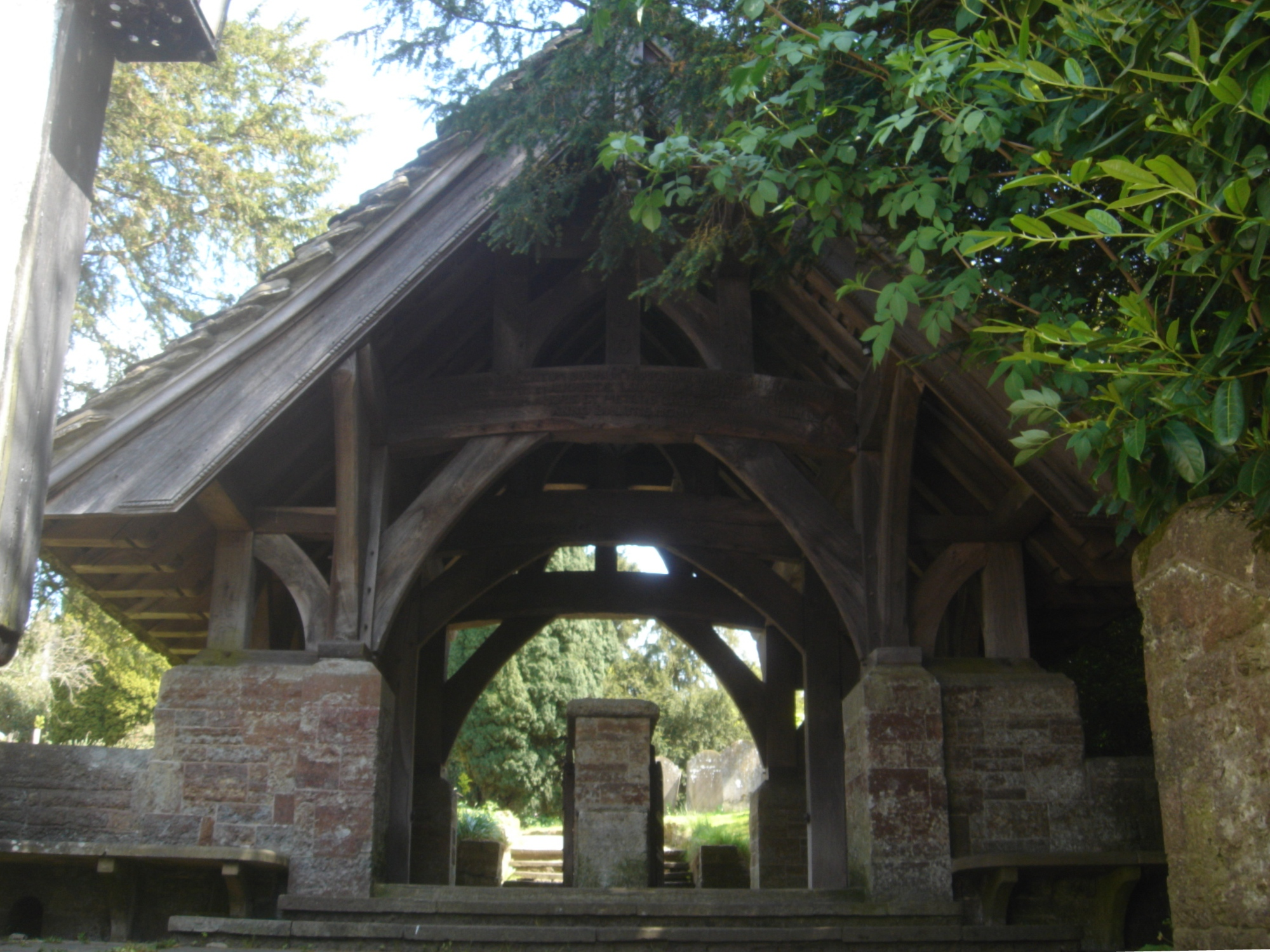 St Mary Magdalene's Church, The Street, Bolney, District of Mid Sussex, West Sussex, England. The parish church of Bolney; listed at Grade I by English Heritage (IoE Code 302420). This view shows the lychgates, which was erected in 1905. It is of Sussex oak and Sussex marble.